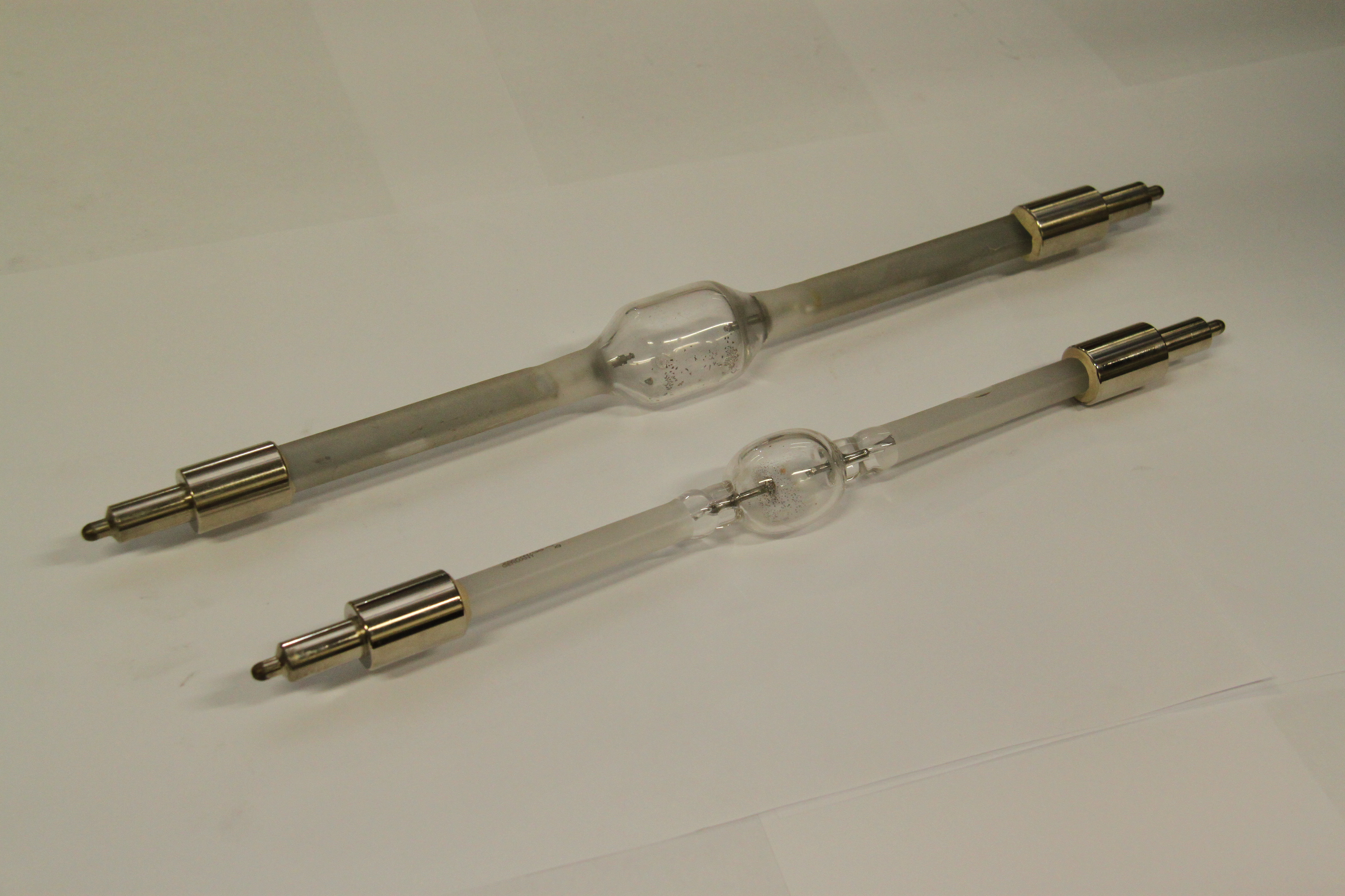 HMI lamps (Hydrargyrum medium-arc iodide lamps) 12 kW, double-ended.